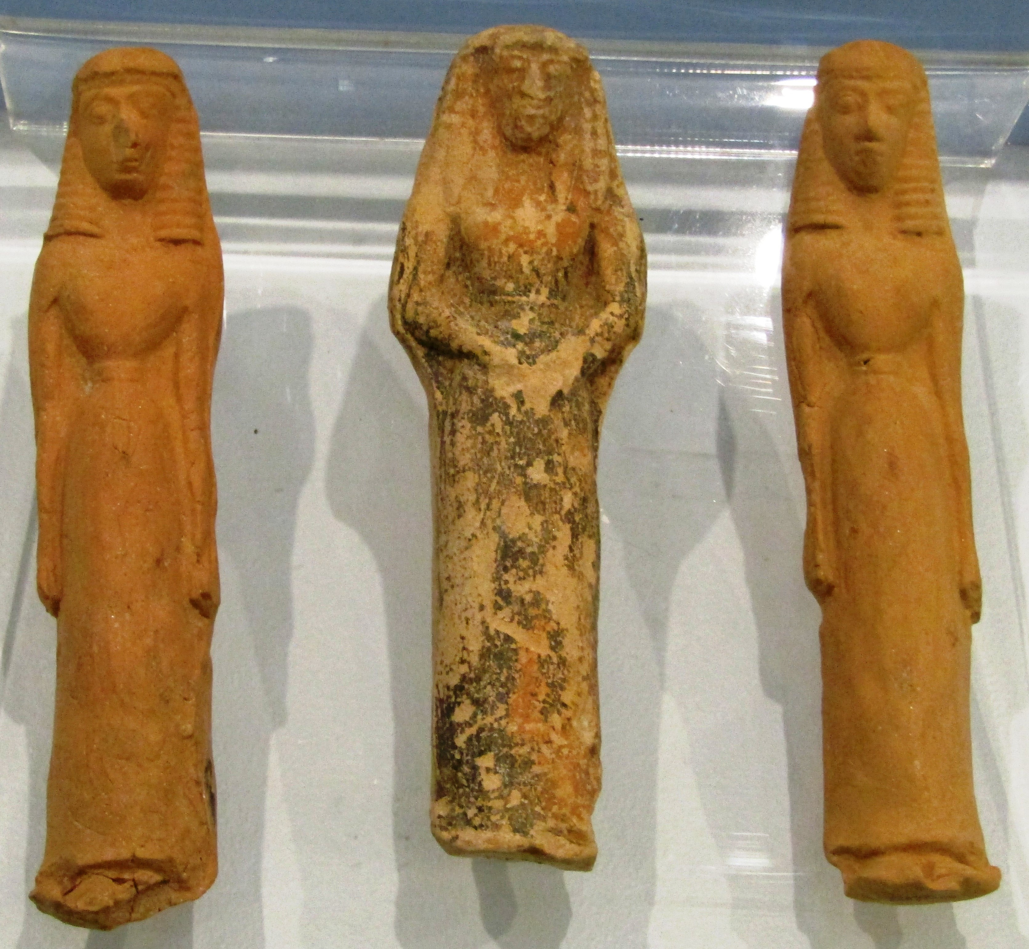 Archaic female figurines